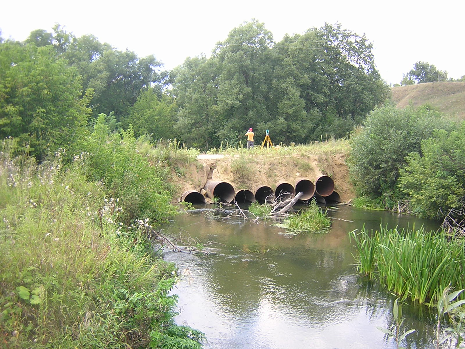 River Devitca Voronegsky Region Russia